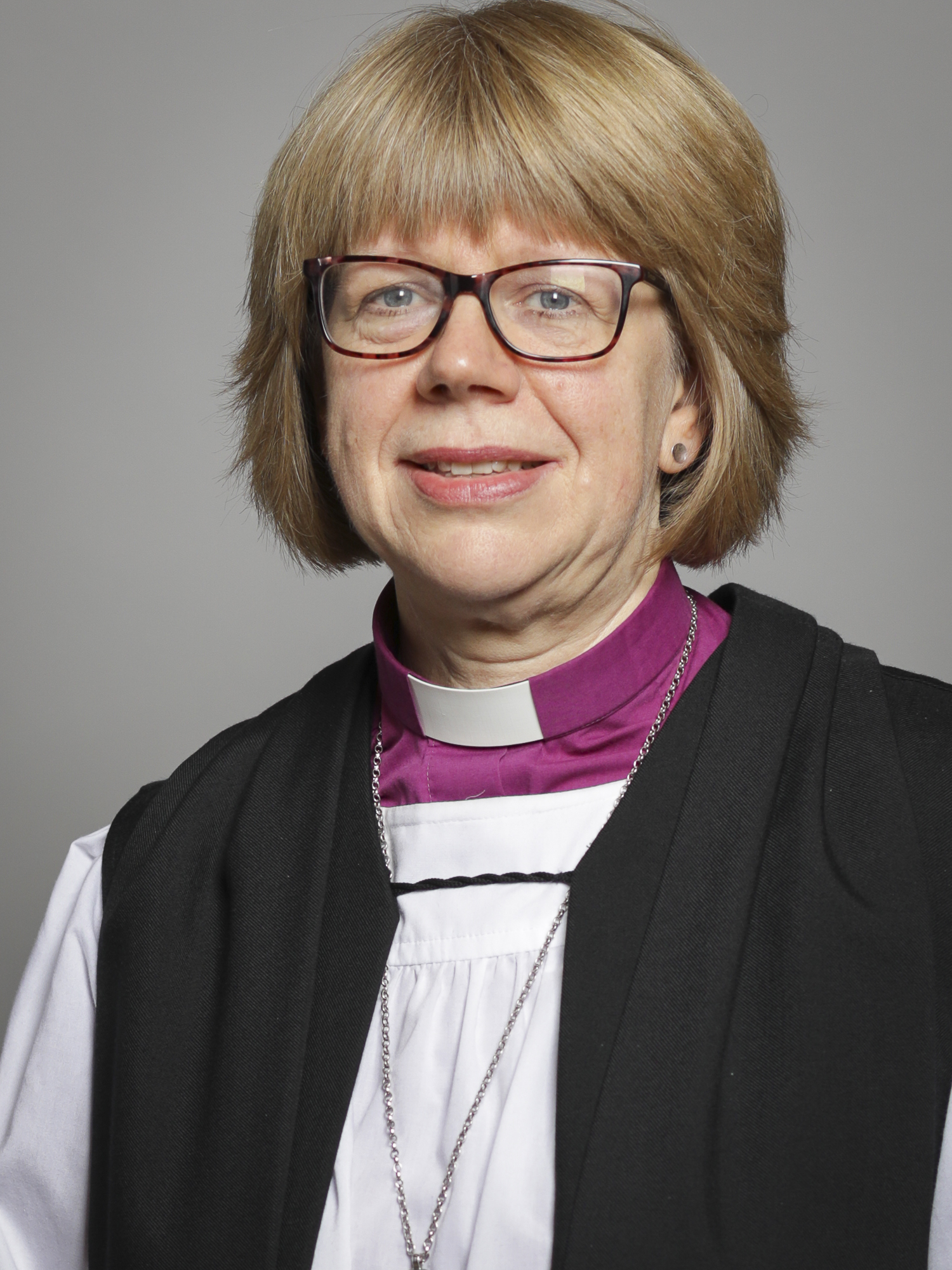 Official portrait of The Lord Bishop of London 3×4 portrait of The Lord Bishop of London